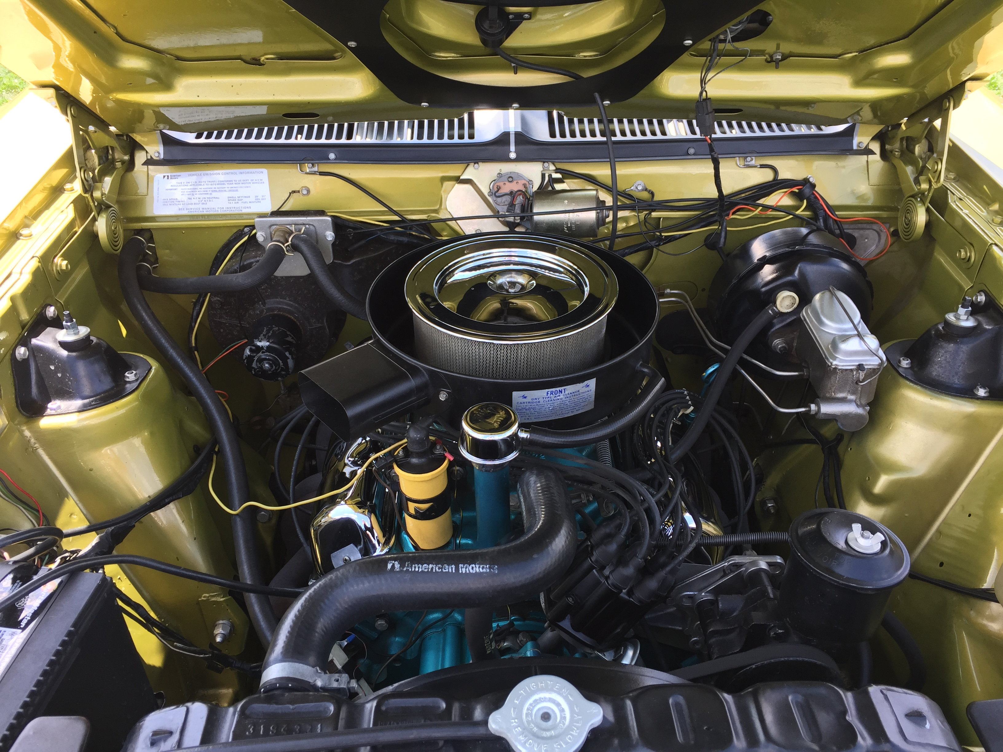 1970 AMC Rebel - The Machine - a two-door intermediate-sized "muscle car" by American Motors Corporation. This car is finished in "Golden Lime" metallic paint with the "Machine" black hood and ram-air hood scoop with integral tachometer. The interior has the standard front bucket seats with center armrest and console mounted automatic transmission shifter. The V8 is AMC's 390 cu in (6.4 L) producing 340 hp and 430 lb·ft of torque @ 3600 rpm. Standard are the special 15x7 wheels with the appearance of a cast alloy wheel. Picture taken during the American Motors Owners Association (AMO) annual convention that was held July 2015 near Cleveland, Ohio.